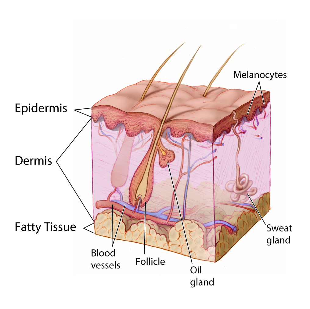 Skin and its layers: Shown is a drawing of the layers of skin and associated glands and vessels (epidermis, dermis, fatty tissue, blood vessels, follicle, oil gland, sweat gland). Reuse Restrictions: None - This image is in the public domain and can be freely reused. Please credit the source and/or author listed above.